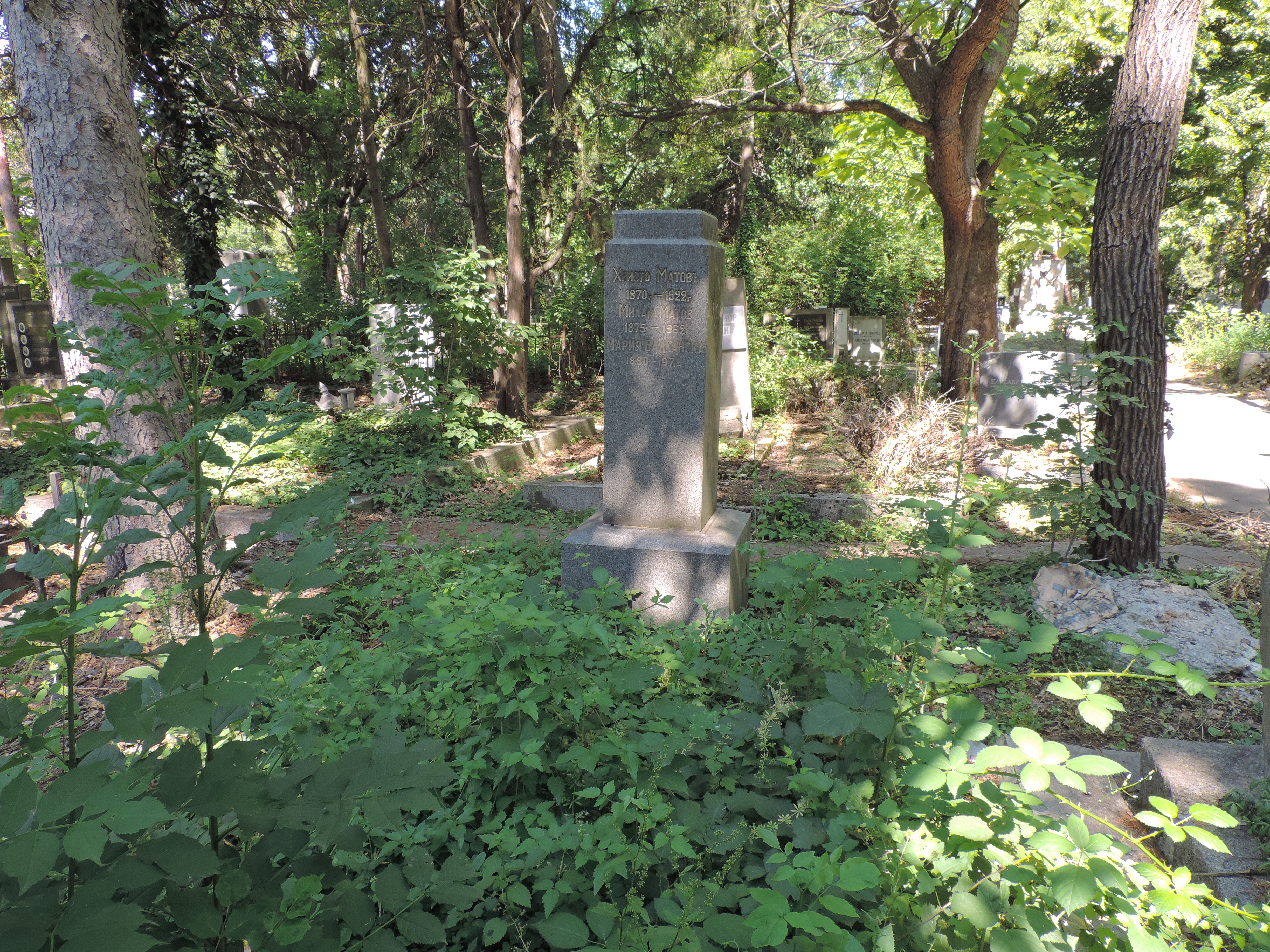 Central Sofia Cemetery